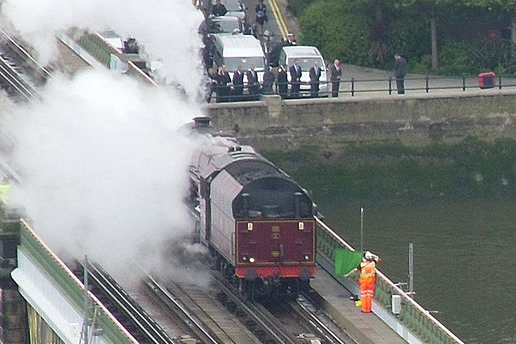 LMS Princess Royal Class 6201 Princess Elizabeth salutes the Queen from Battersea Railway Bridge, just as she (The Queen) leaves Chelsea Wharf at the beginning of the Thames Diamond Jubilee Pageant.